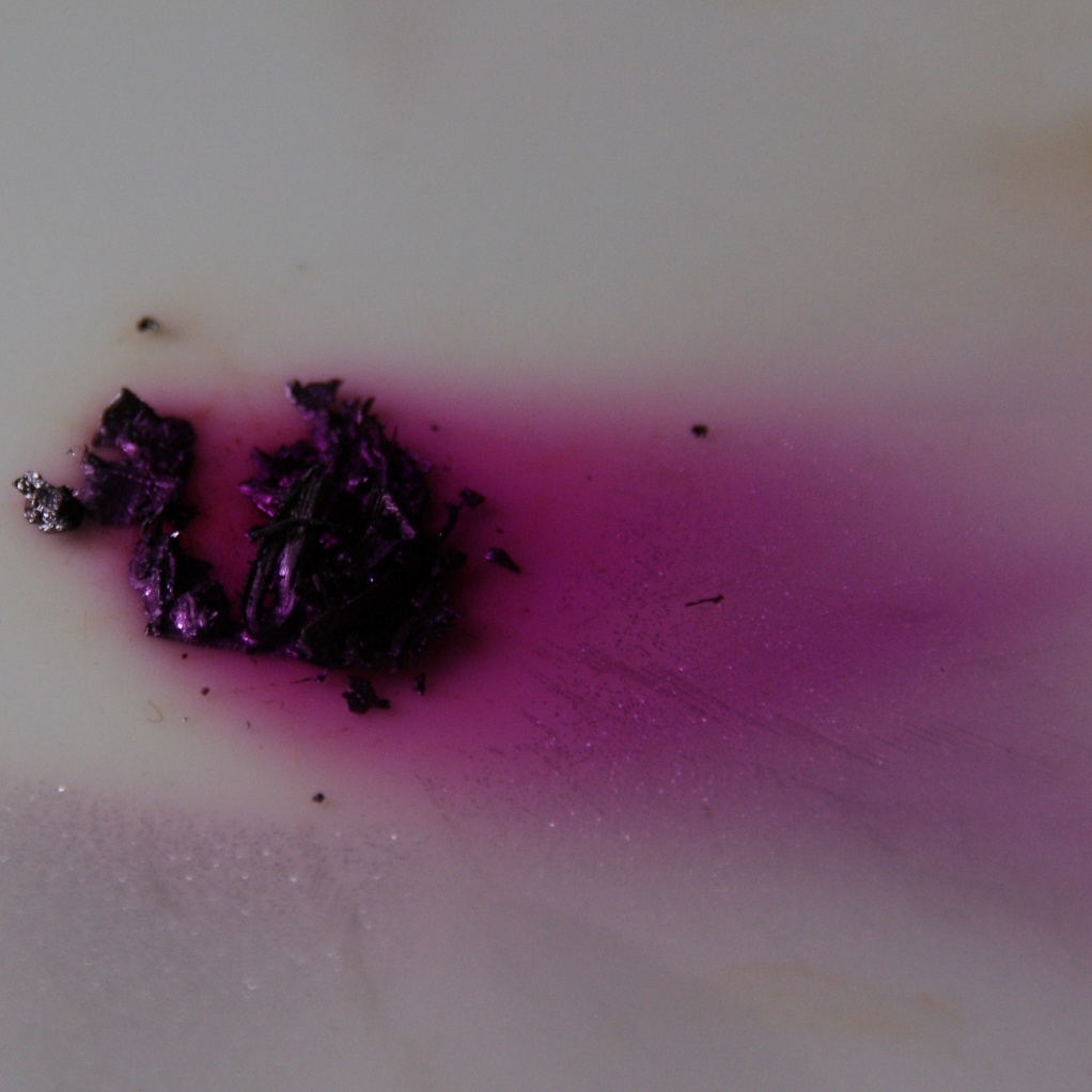 Evaporating pure iodine.